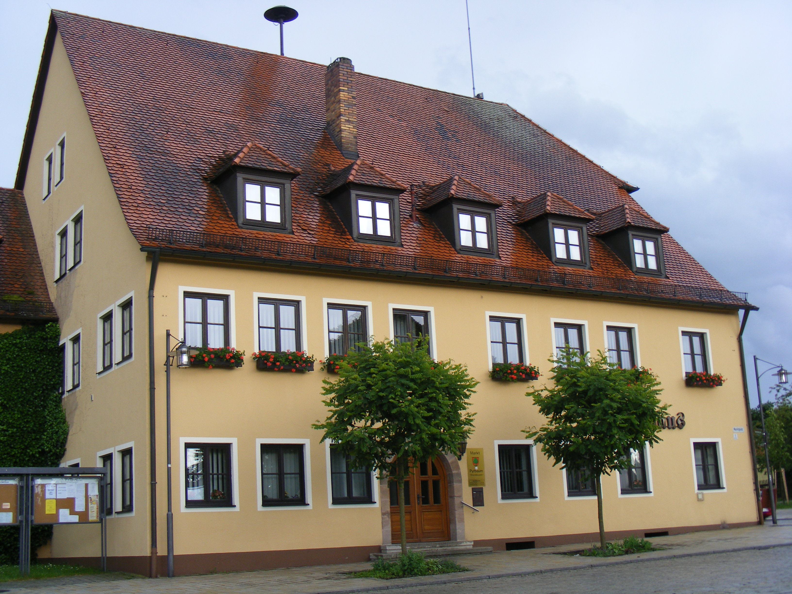 Town Hall Pyrbaum (Germany)